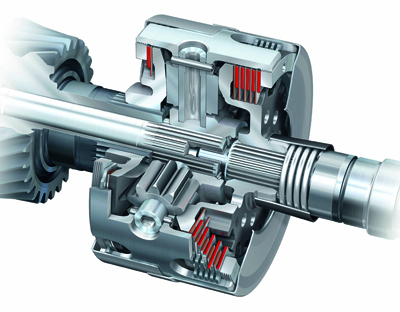 Audi Media Image of the Audi Crown gear Differential. Use approved by email from Audi